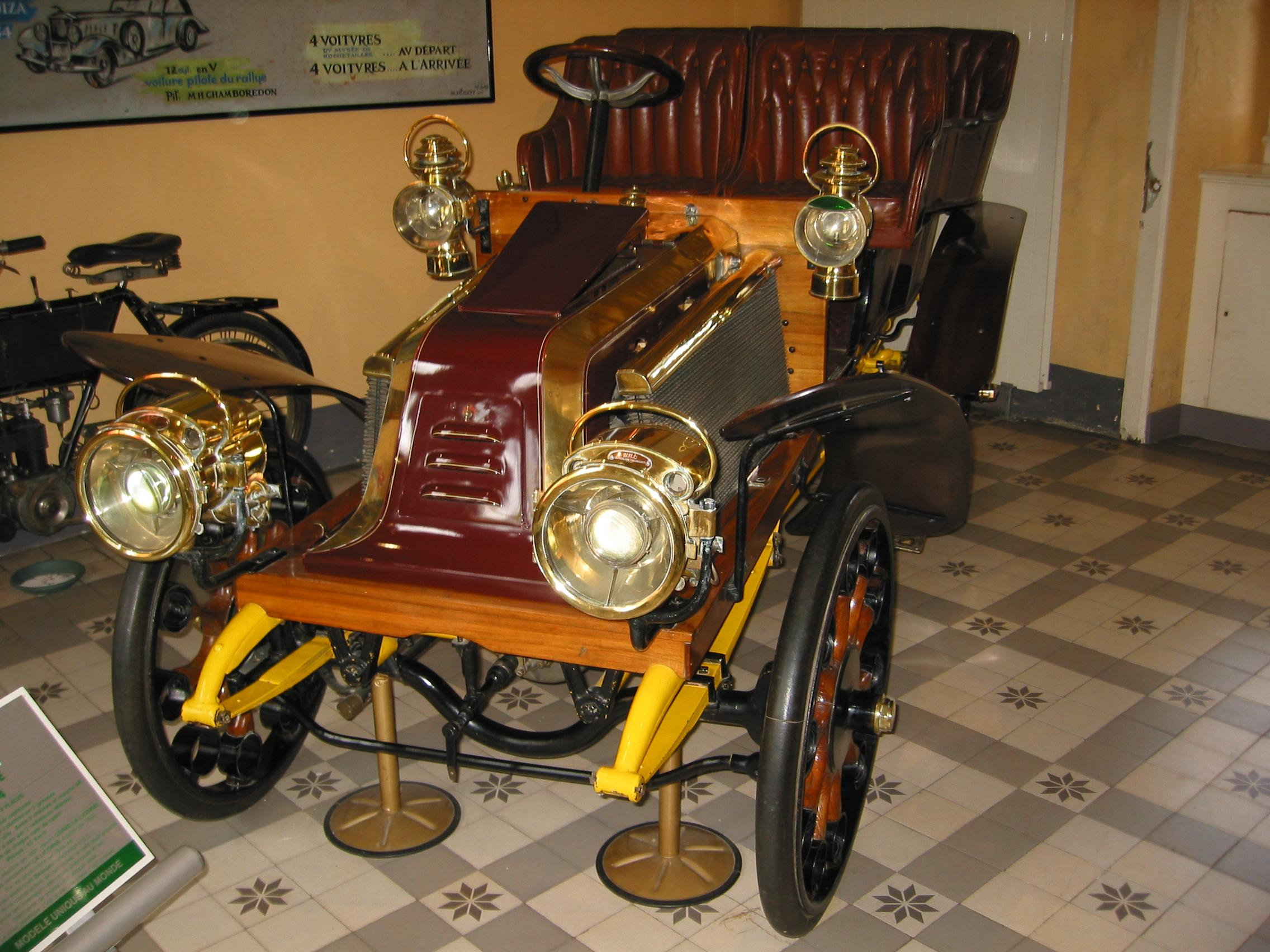 Corre 1904 (Country of origin: France)